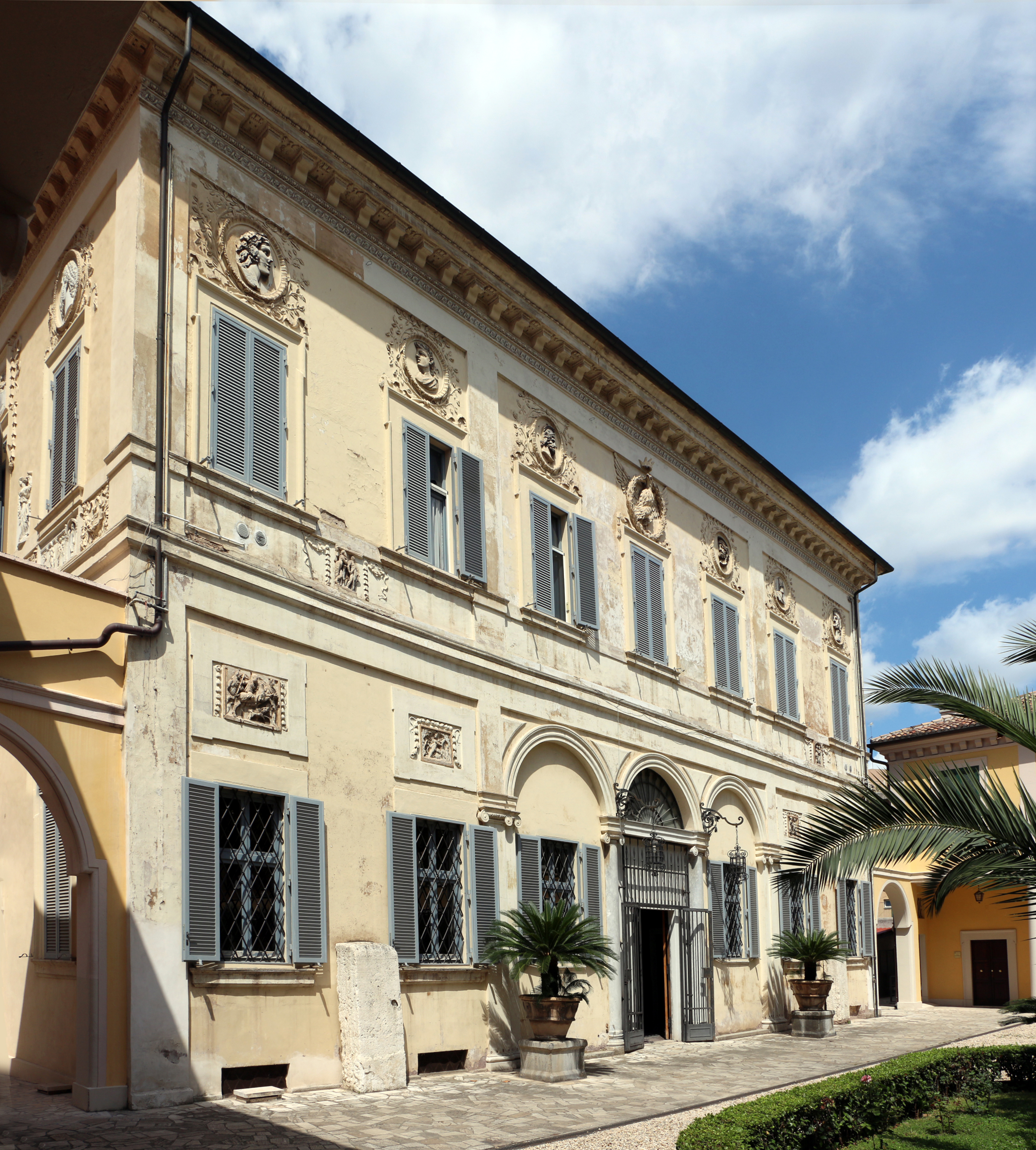 Casino Giustiniani Massimo (Rome)